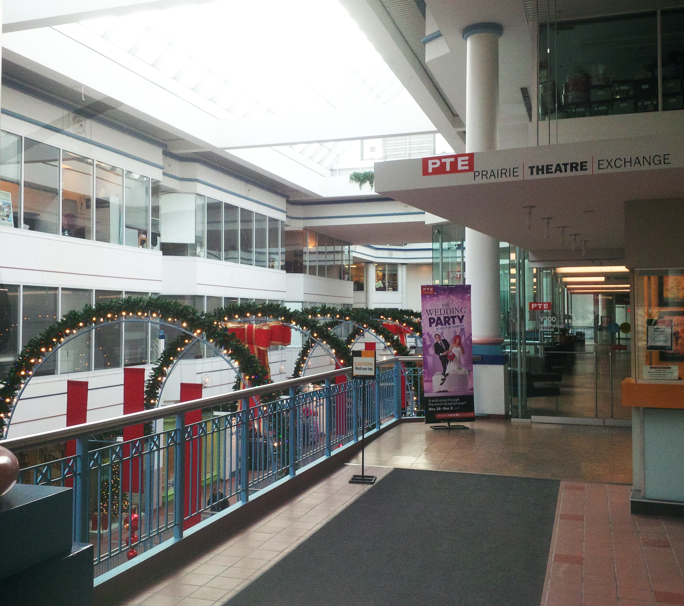 Entrance to the Prairie Theatre Exchange venue, which has been their home since October 1989.